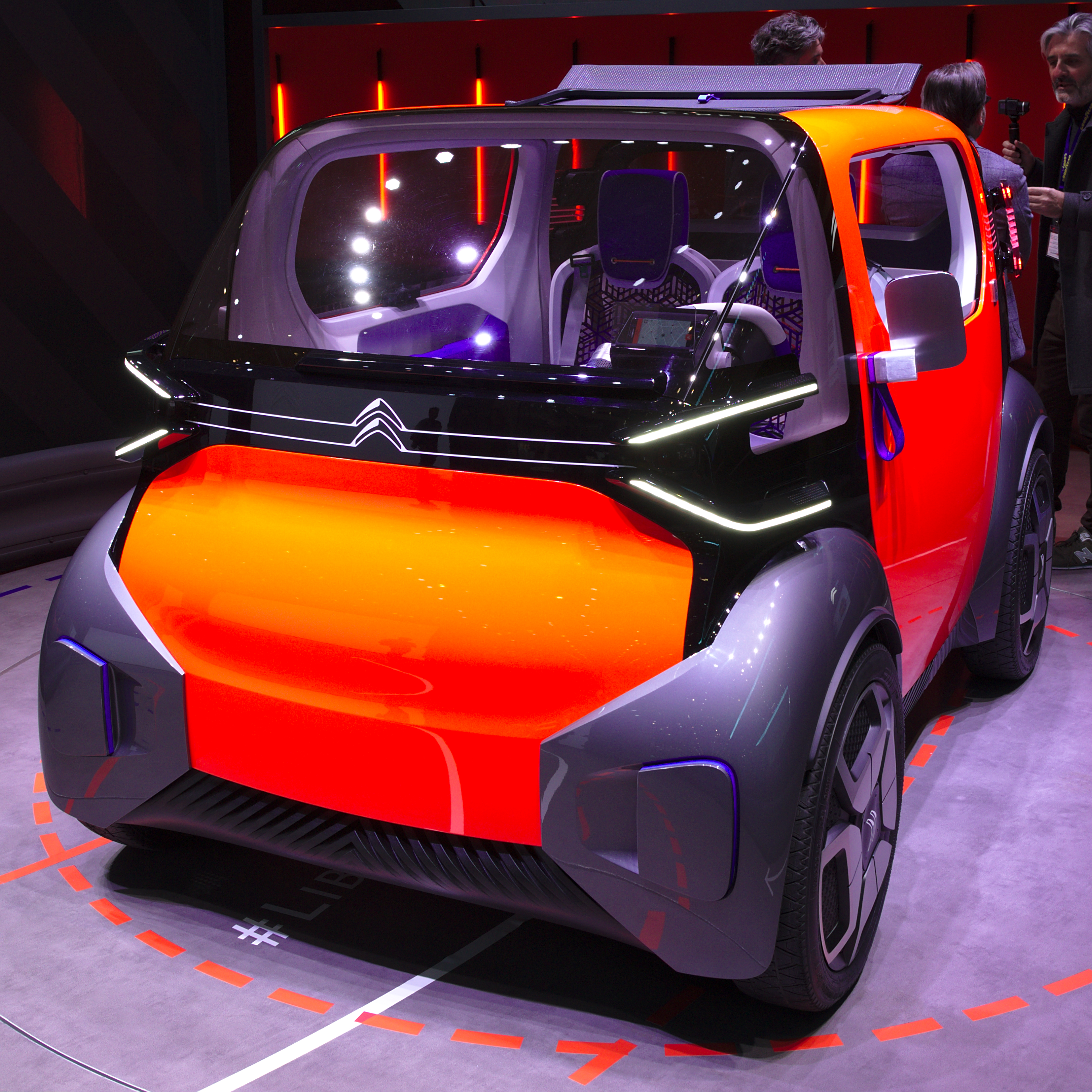 Citroën Ami One Concept at Geneva Motor Show 2019